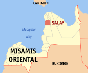 Map of the Misamis Oriental showing the location of Salay